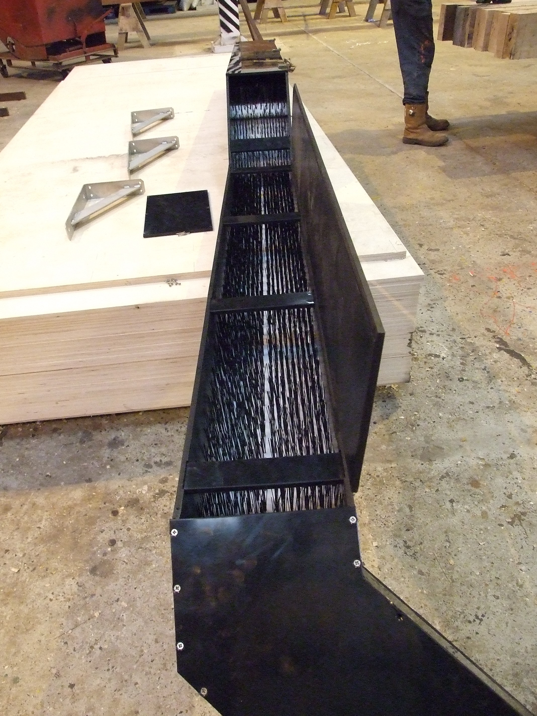 This Elver pass has a panel lifted so the bristle surface to be concealed inside the duct is visible